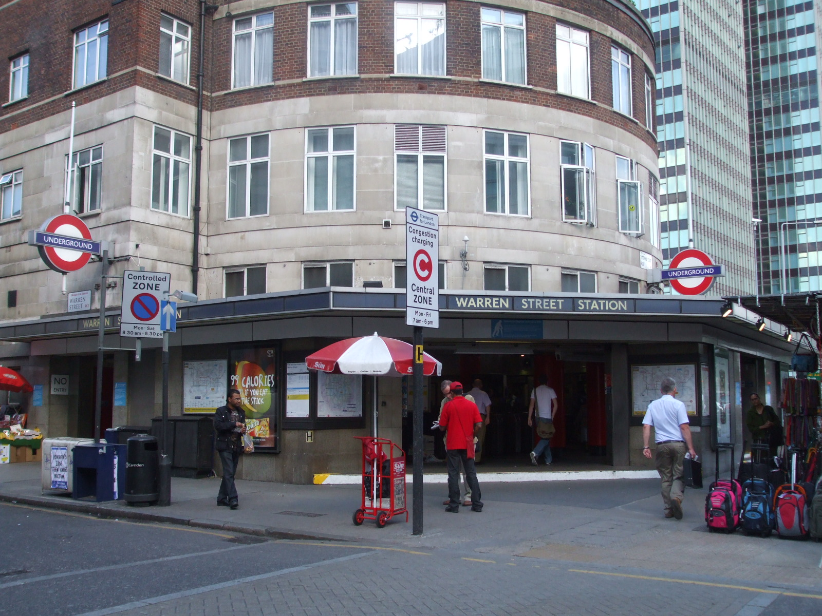 Warren Street tube station entrance. A further entrance at the rear is undergoing refurbishment